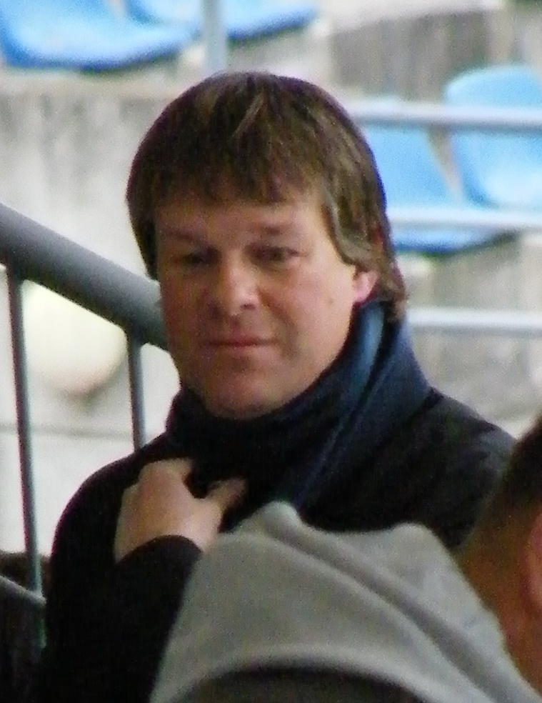 Erwin Koeman Dutch association football manager and former association football player.